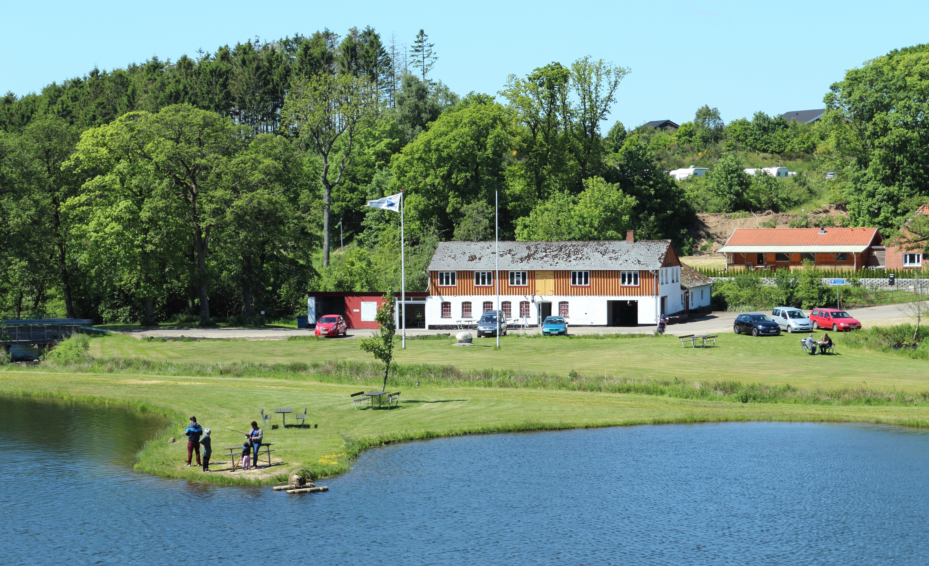 A put and take lake, next to Rørbæk Sø a lake in Denmark, and adjacent to Rørbæk Camping